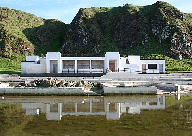 Tarlair Swimming Pool, Aberdeenshire, Scotland.